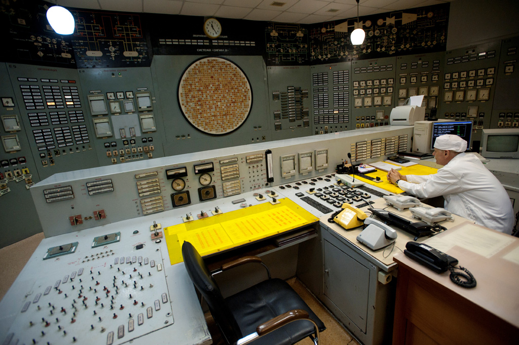 “Beloyarsk nuclear power plant in Sverdlovsk Region”. A staff member of the Beloyarsk nuclear power plant during his shift at the second active control panel.